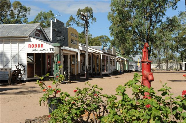 A street view of the Miles Historical Village and Museum, in Miles QLD. The museum boasts over 30 authentic buildings and displays of the local area's history and favourite pastimes.